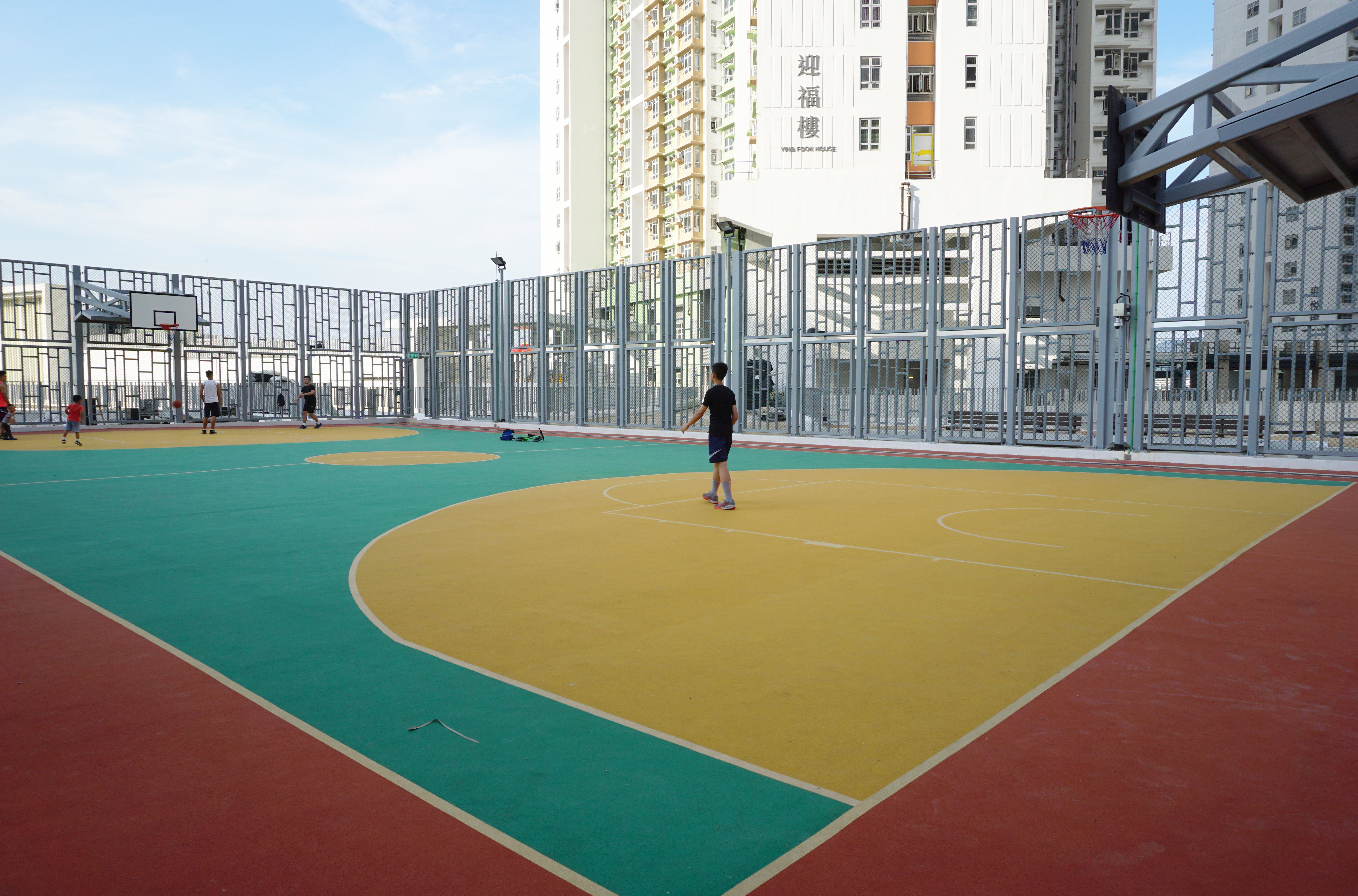 Ying Tung Estate in Tung Chung, Hong Kong.